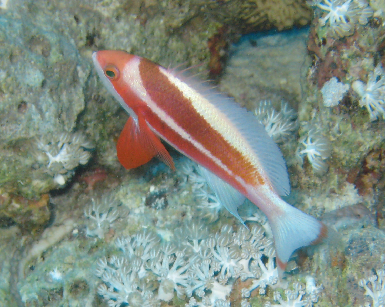 Pseudanthias taeniatus head closeup. Photo taken in the red sea near Sharm el-Sheikh